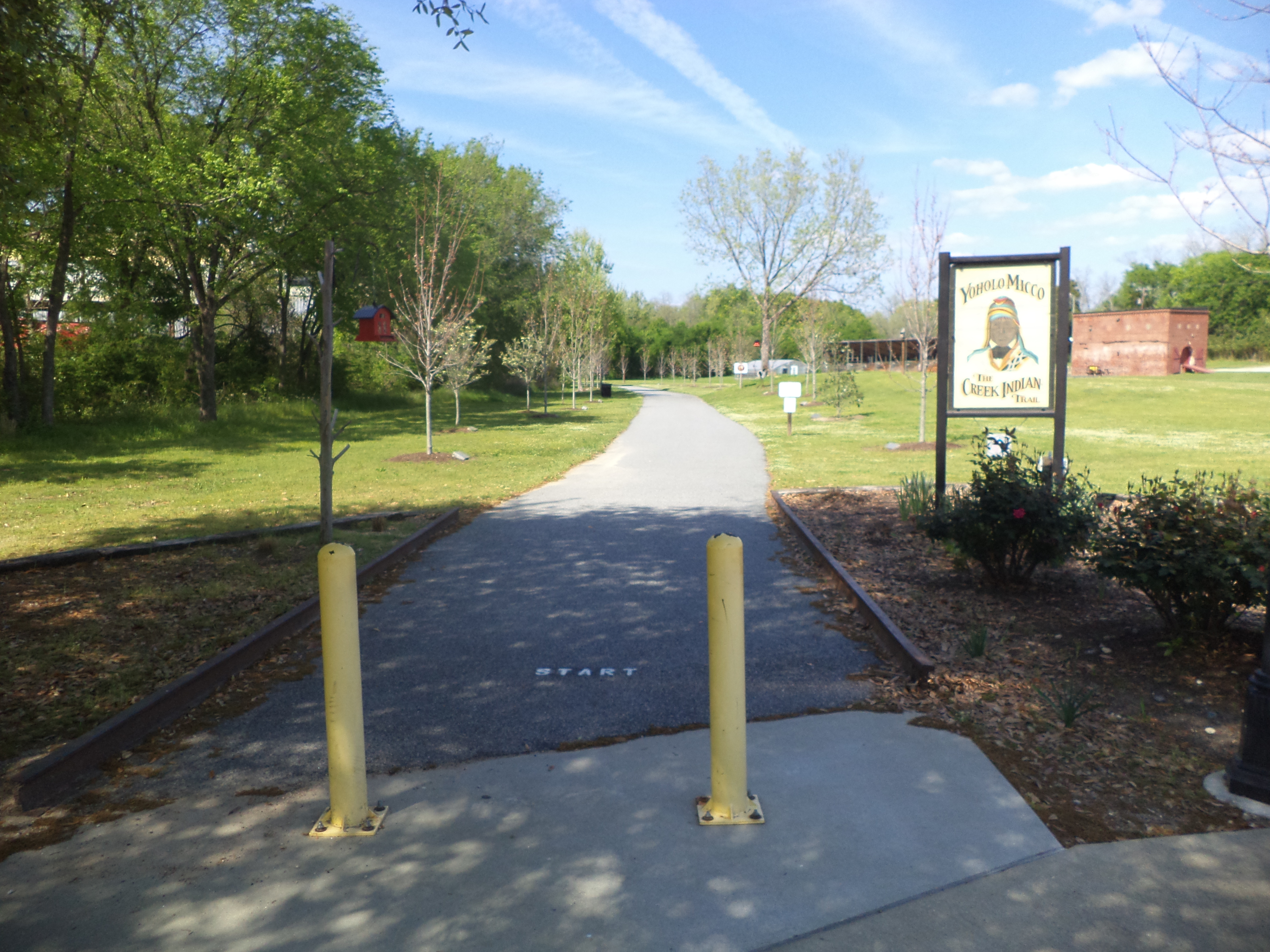 Yoholo Mico, The Creek Indian Trail trailhead, E. Broad St., Eufaula, Barbour County, Alabama